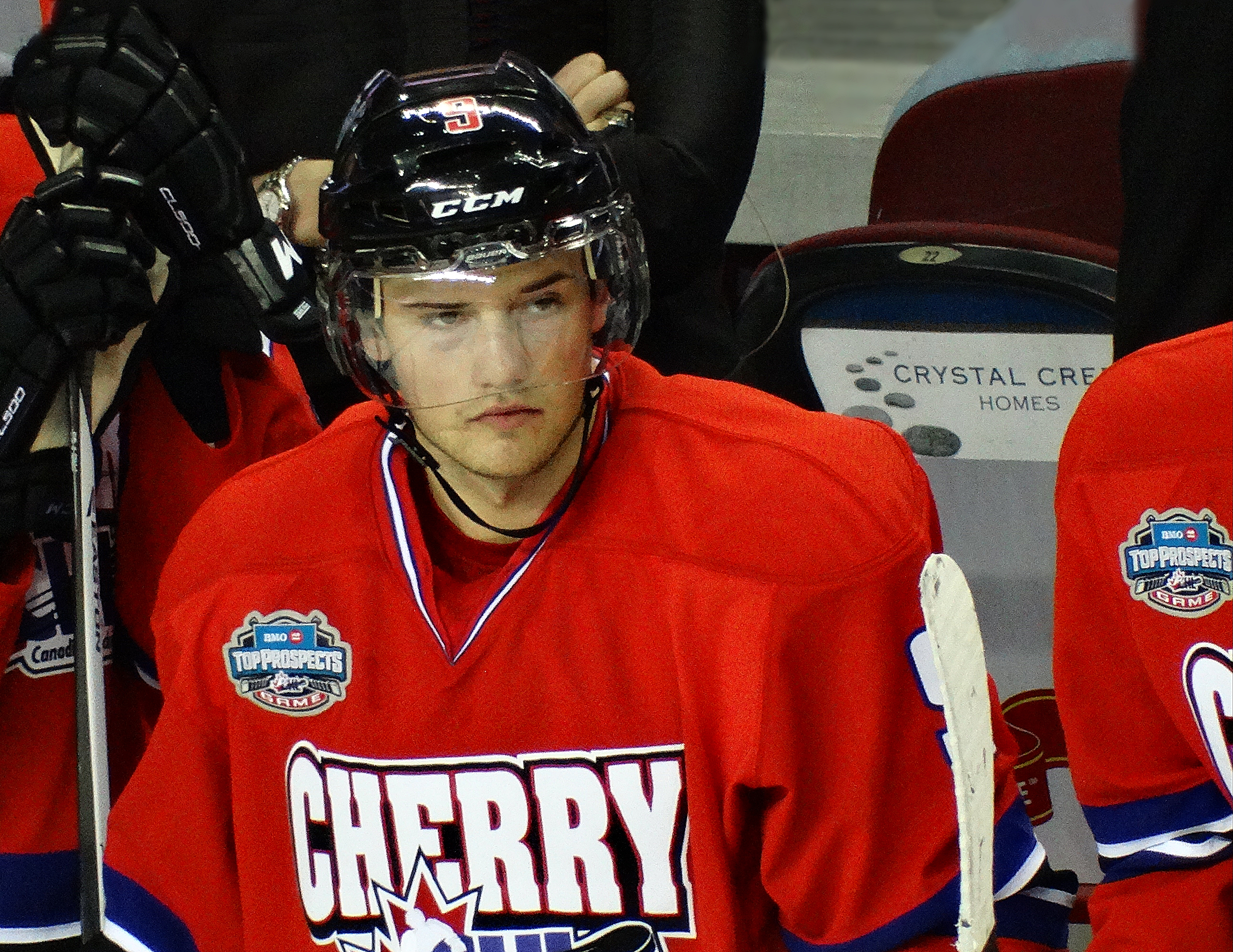 Chase De Leo, American ice hockey centre at the CHL / NHL Top Prospects Game